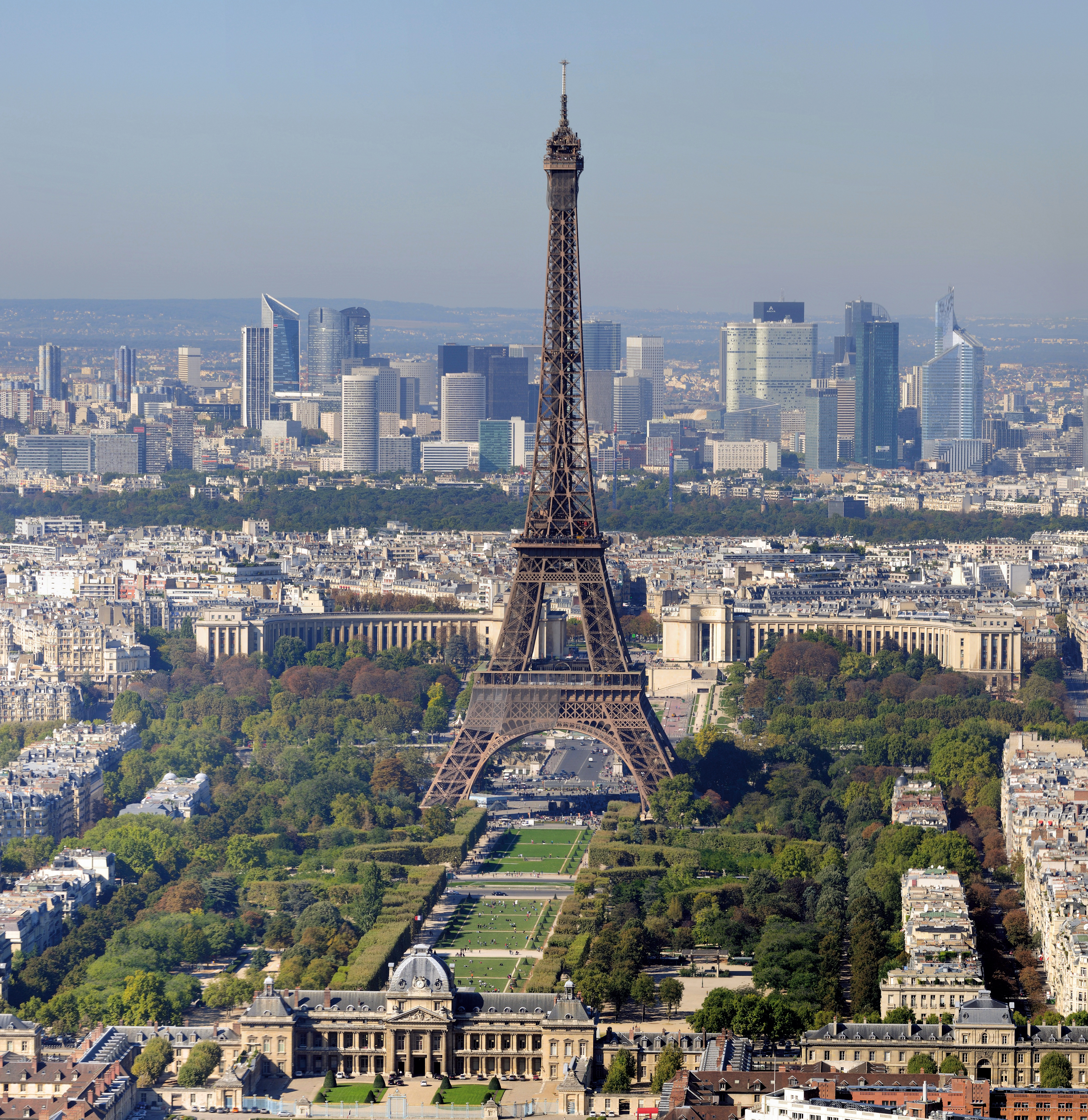 Paris: The Eiffel Tower and the Champ de Mars.